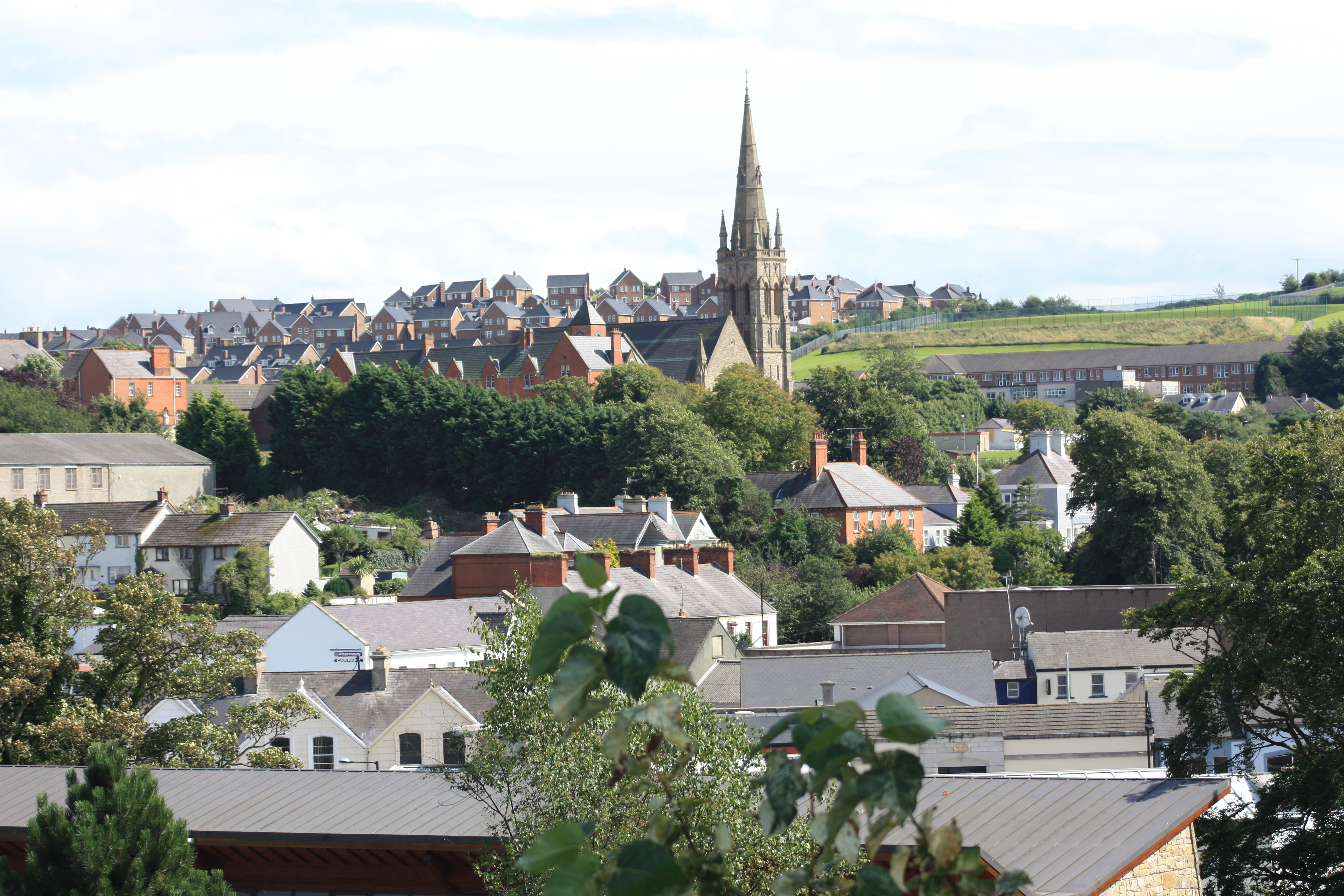 Downpatrick, County Down, Northern Ireland, August 2009 (viewed from The Mall, English Street)